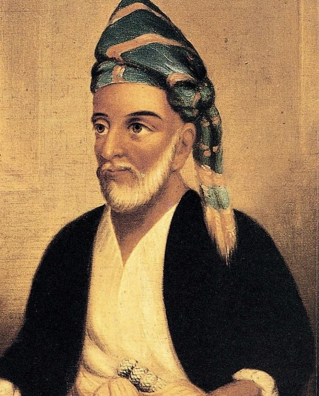 Contemporary portrait of Said bin Sultan (cropped version of file:Said bin Sultan.jpg)